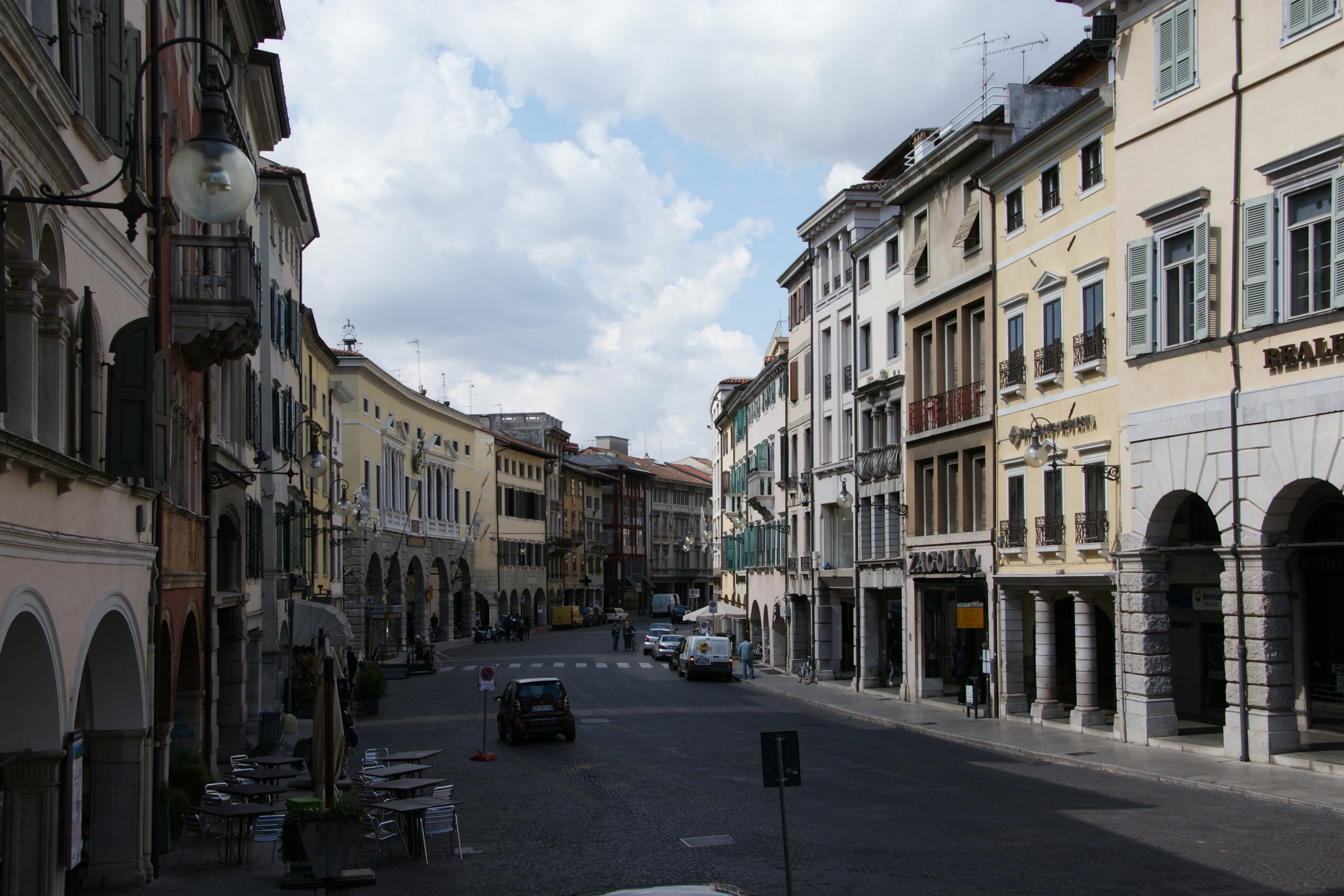 Udine, Via Mercatovecchio